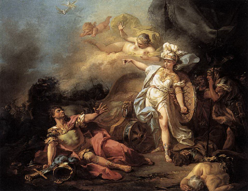 The Combat of Ares and Athenalabel QS:Len,"The Combat of Ares and Athena" label QS:Lko,"아레스와 아테나의 전투"